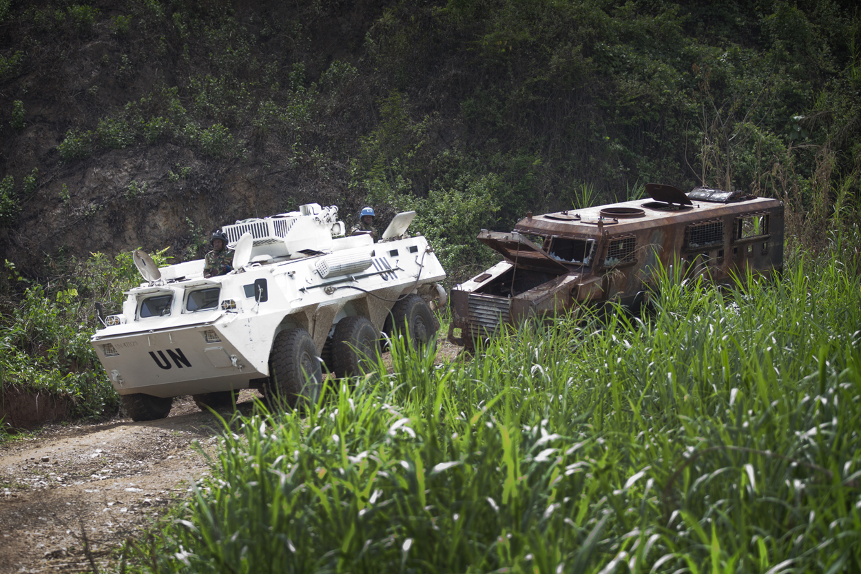 A MONUSCO APC drives near the wreckage of a nepalese armored vehicle which was hit the previous year in an ambush from ADF militia in the Beni region, the 13th of March 2014. © MONUSCO/Sylvain Liechti